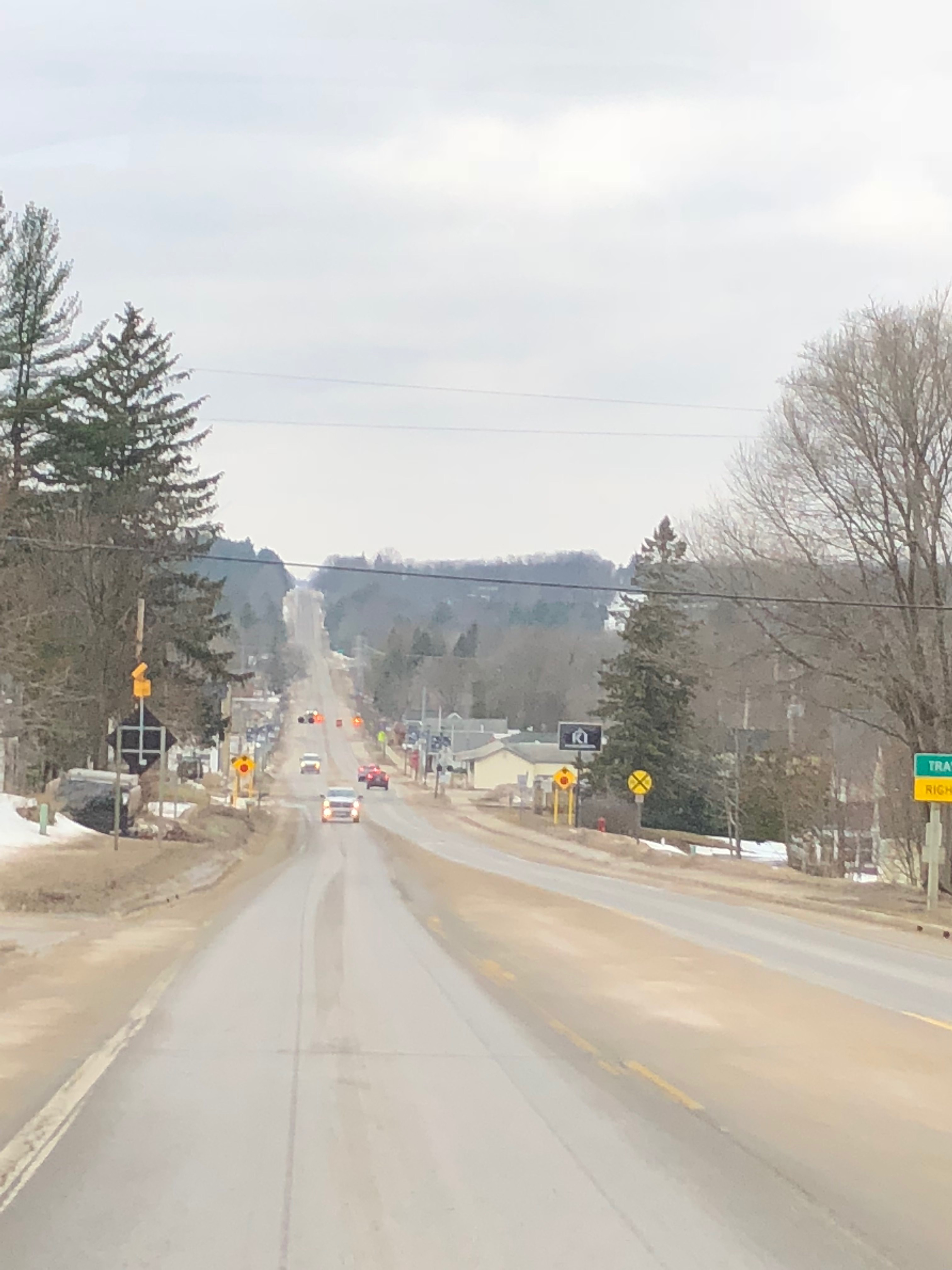 Looking westward into Kingsley, Michigan from M-113 in January, 2018